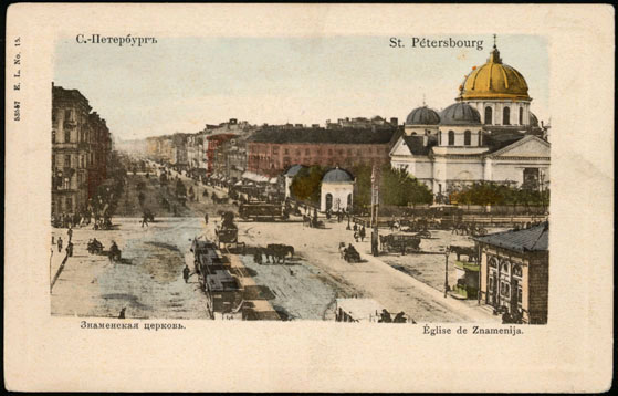 Nevsky Prospekt near the Moscow Railway Station in 1905.